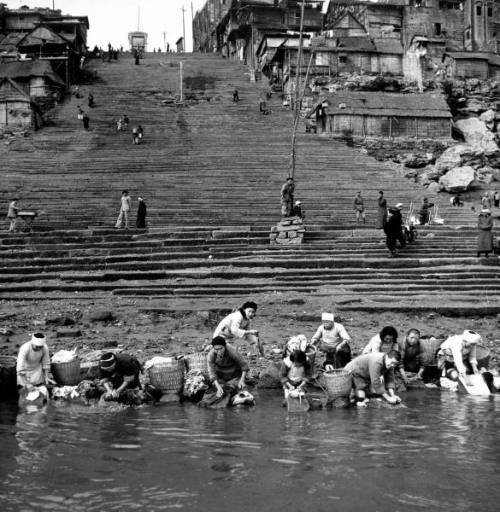 chaotianmen 1941